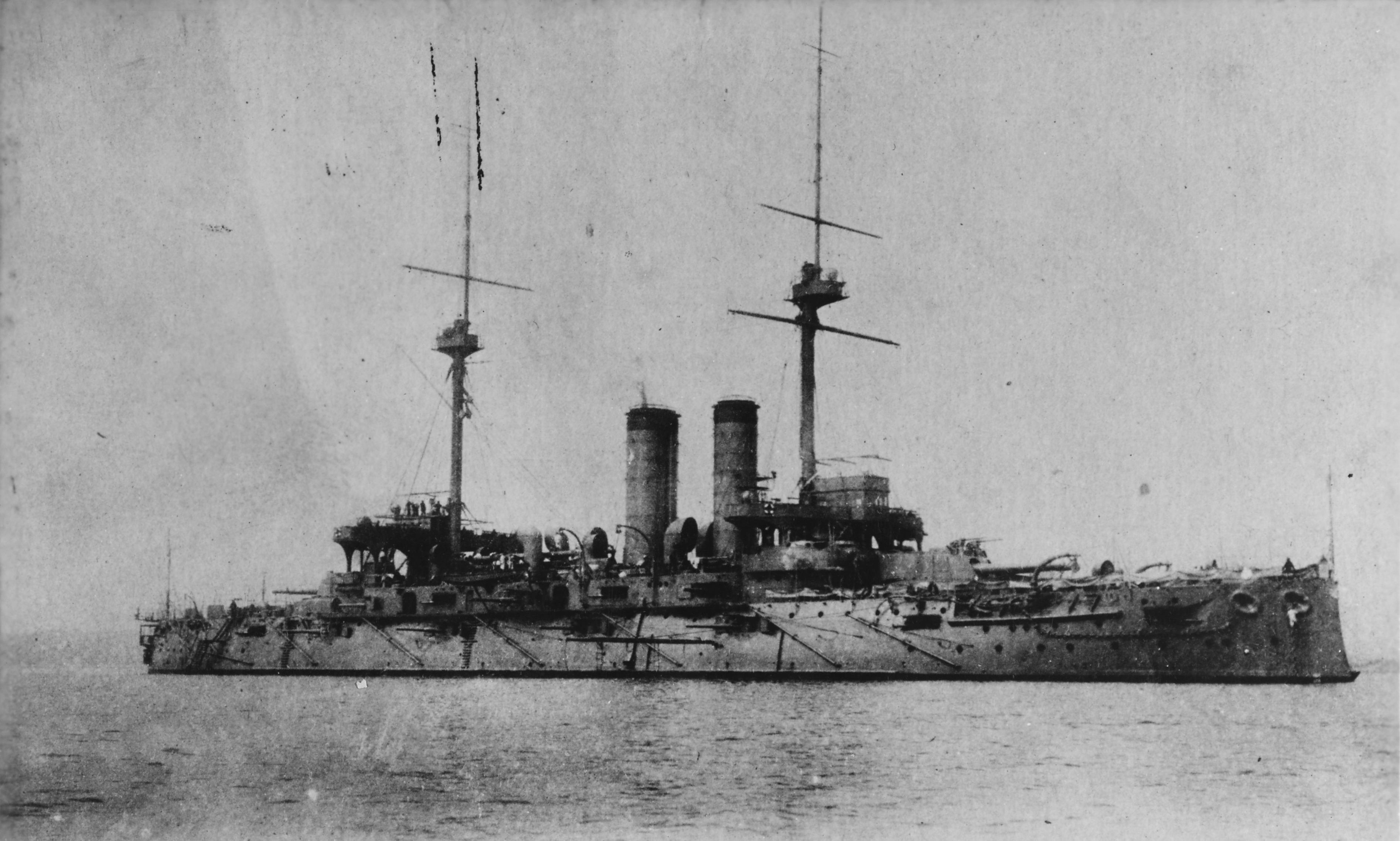 The Japanese Battleship Mikasa. This version cropped and slightly rotated by uploader.